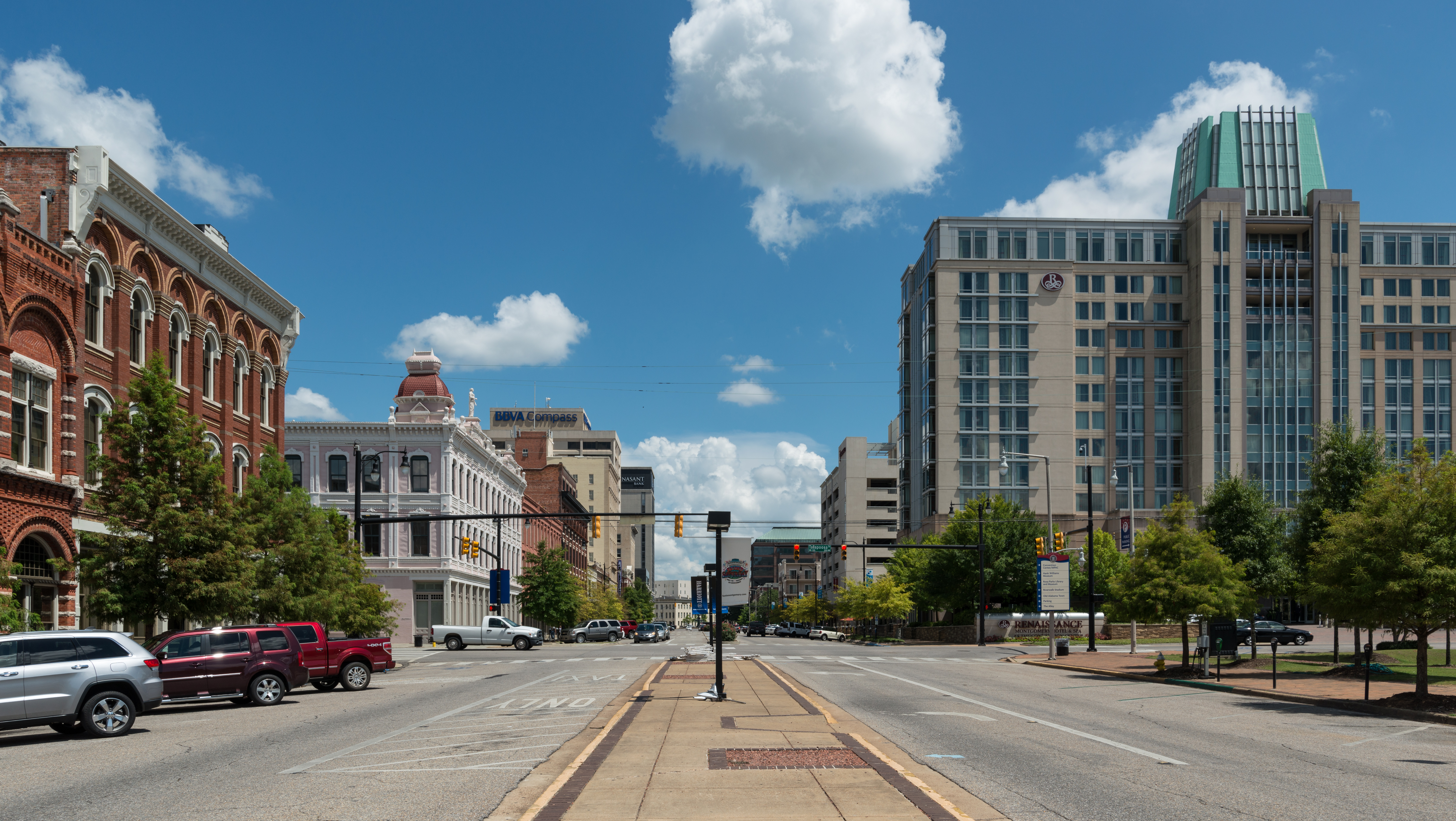 A view of Commerce St, Montgomery, Alabama, near the crossing with Tallapoosa St, looking towards southeast